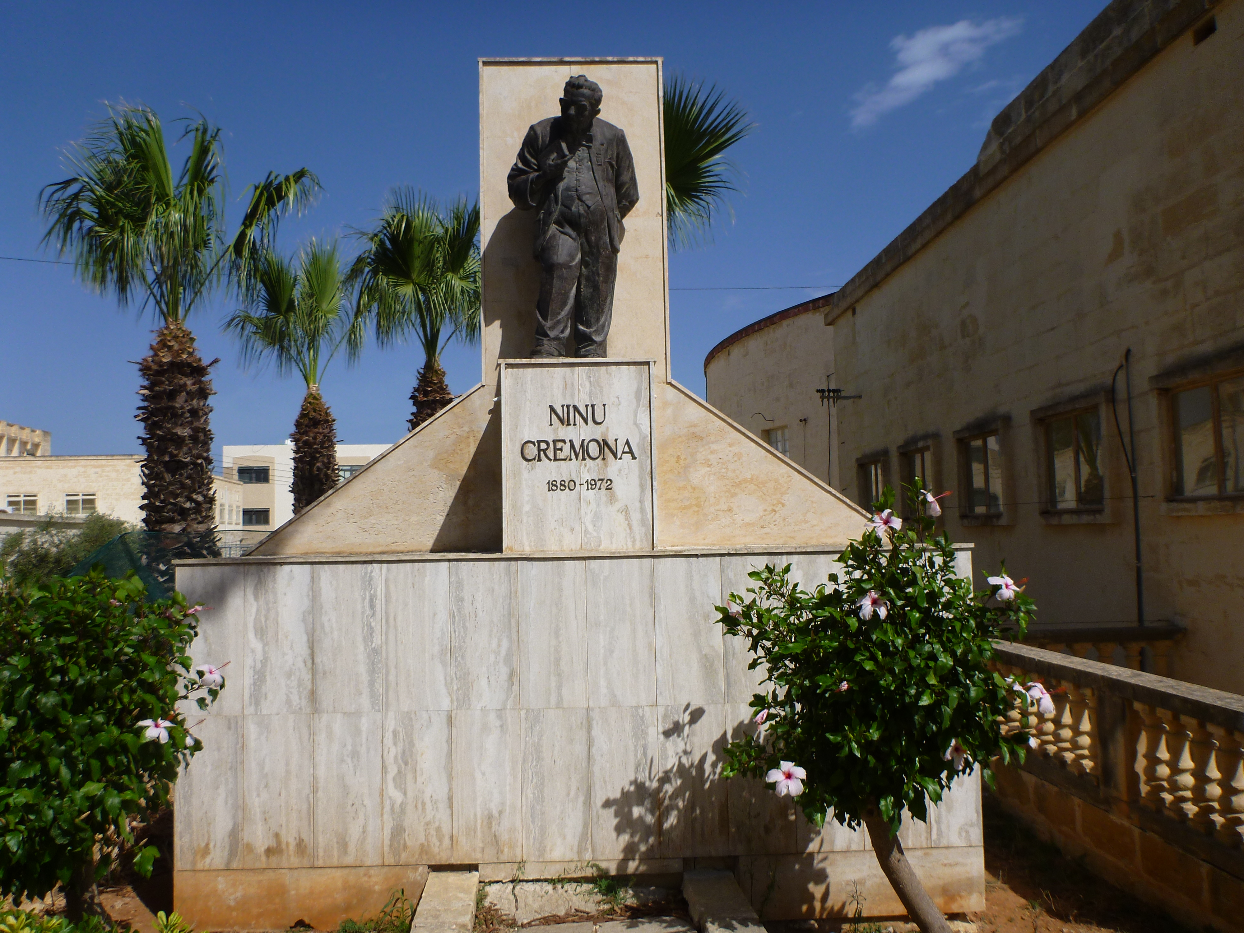 Statue of Ninu Cremona a Maltese writer in Victoria, Malta in Island Gozo